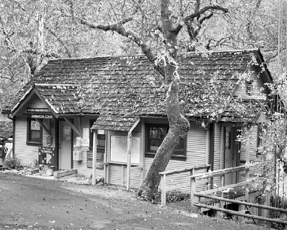 William B. Smullin Visitor Center at the historic Rand Ranger Station; near Galice, Oregon.